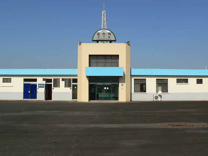 KORAIL Songcheon Station